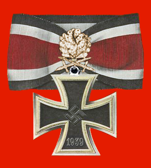 Knight's Cross of the Iron Cross with golden Oak Leaves, Swords and Diamonds.